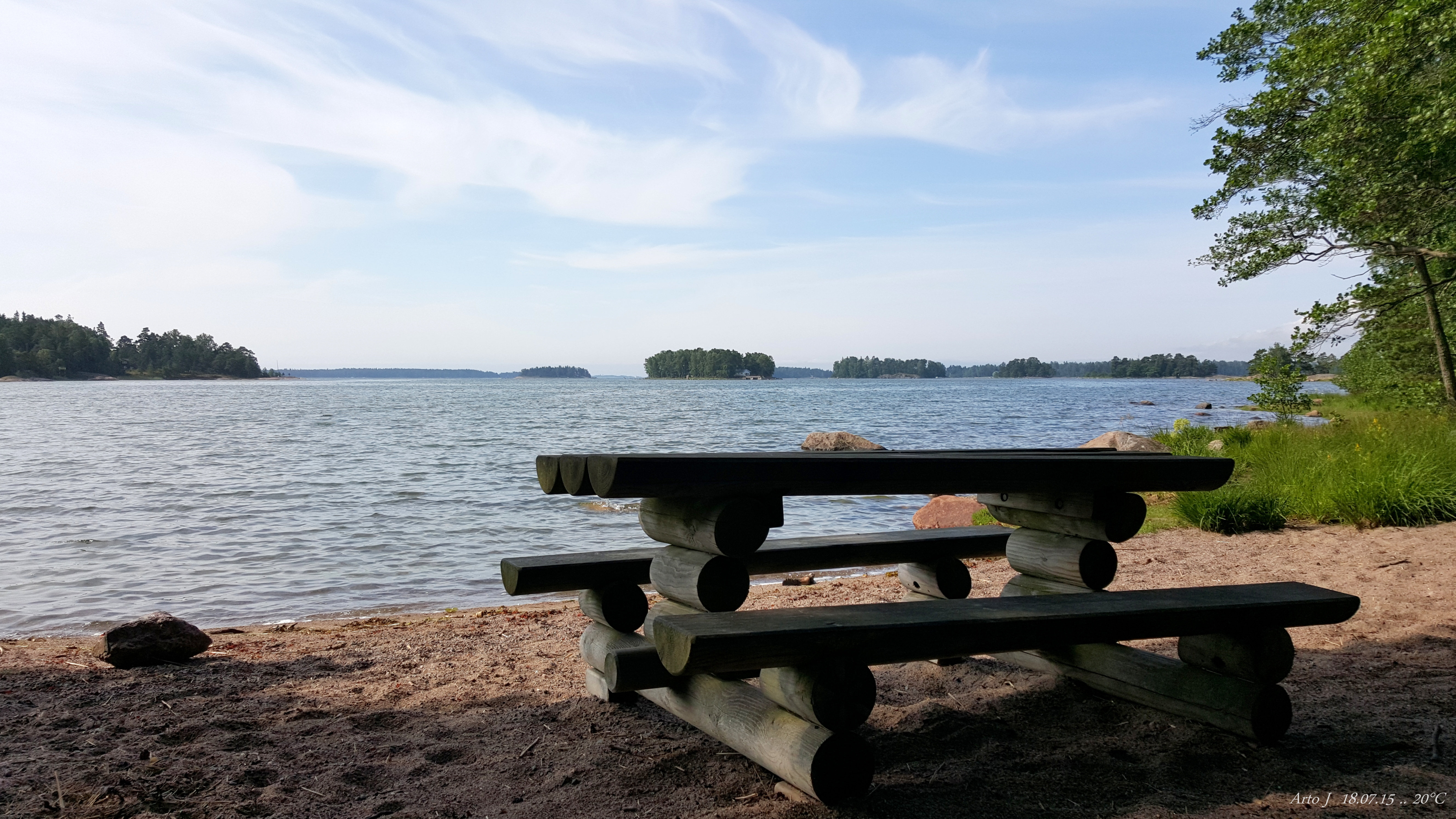 You're Welcome to the Picnic...